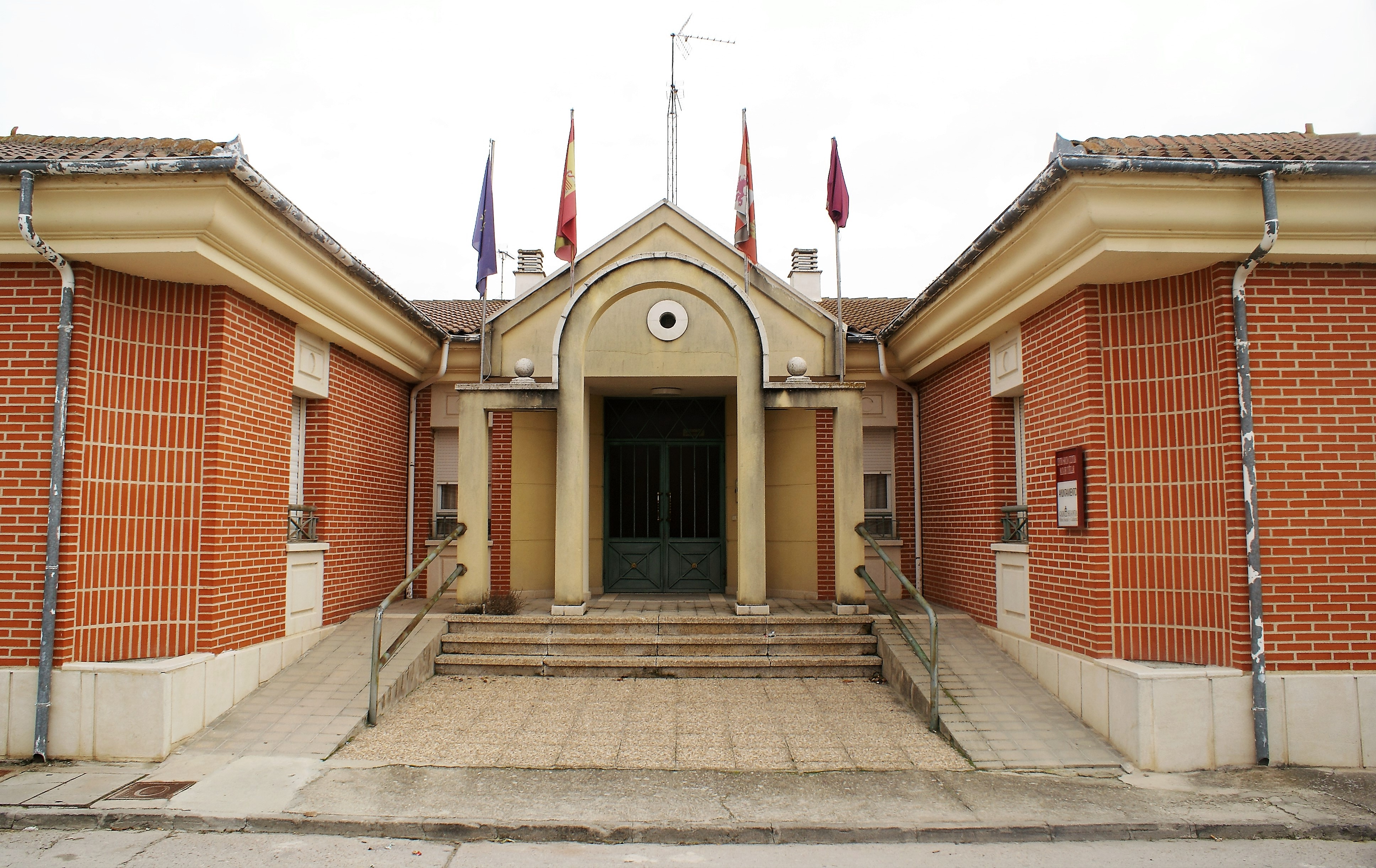 Town hall of Mata de Cuéllar, Segovia, Spain.